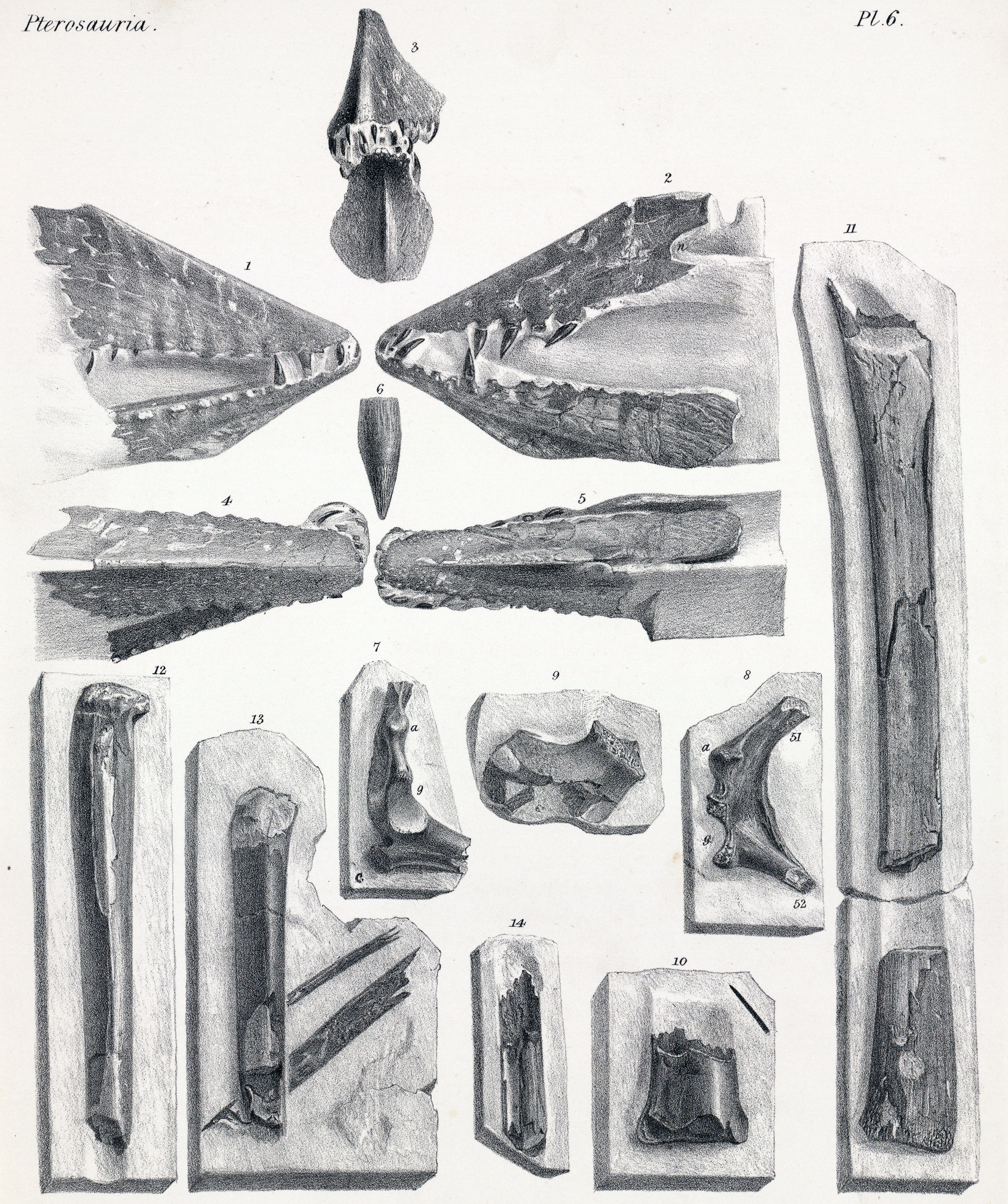 P Pterodactylus, conirostris; Pt. giganteus, Bowerbank; nat size. Fig. 1. Right side of the anterior end of both jaws. Fig. 2. Left side of ditto showing the beginning of the external nostril, n. Fig. 3. Front view of both jaws, which are a little distorted. Fig. 4. Upper surface of the upper jaw. Fig. 5. Under surface of the lower jaw. Fig. 6. A tooth, magnified. Fig. 7. Coalesced ends of scapula, 51, and coracoid, 52, showing the glenoid cavity, g. Fig. 8. Side view of ditto. a, acromion. Fig. 9. A fragment of bone in the same block of chalk with the scapular arch, probably a piece of the sternum. Fig. 10. Mutilated end of a long bone. Fig. 11. The great part of the shaft of a long bone of the wing. Fig. 12. Proximal portion of the shaft of probably the tibia. Fig. 13. Two portions of long bones, and a portion of a rib. Fig. 14. A fragment of a long bone. All the above parts are from the Burham Chalk-pit, Kent, with the exception of figs. 10 and 11, which are from the Halling Chalk-pit, in the same county. In the Museum of James S. Bowerbank, Esq., F.R.S.